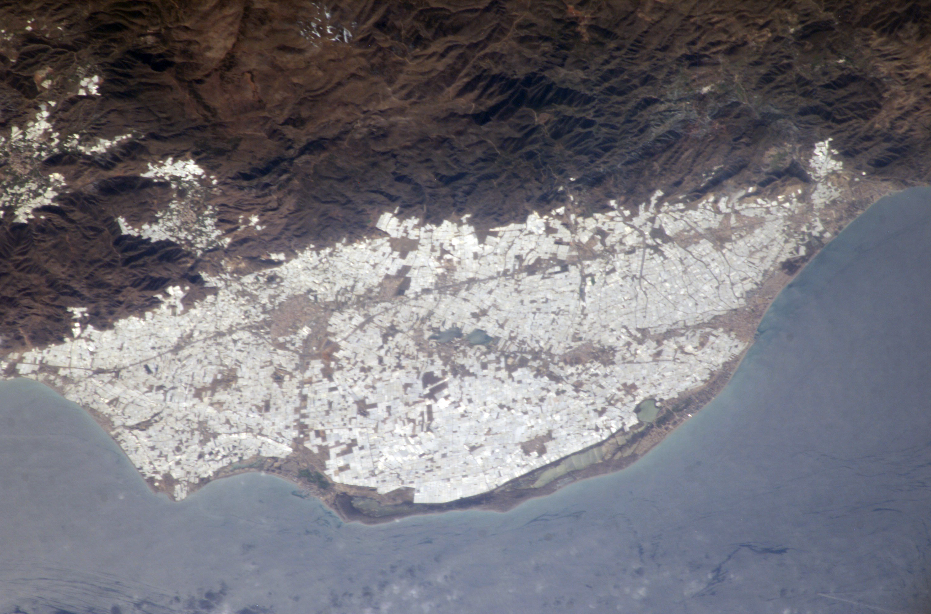 Photo from space of plastic greenhouses covering 20,000 ha of the Campo de Dalías, south-west of Almería in southern Spain. (Full description can be found on the Earth Observatory website: see Source, below.)